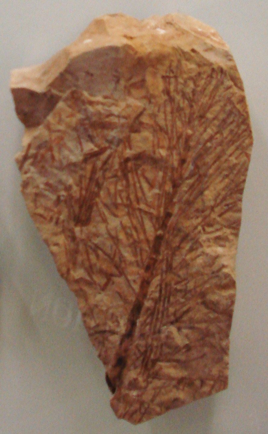 fossil of neocalamites